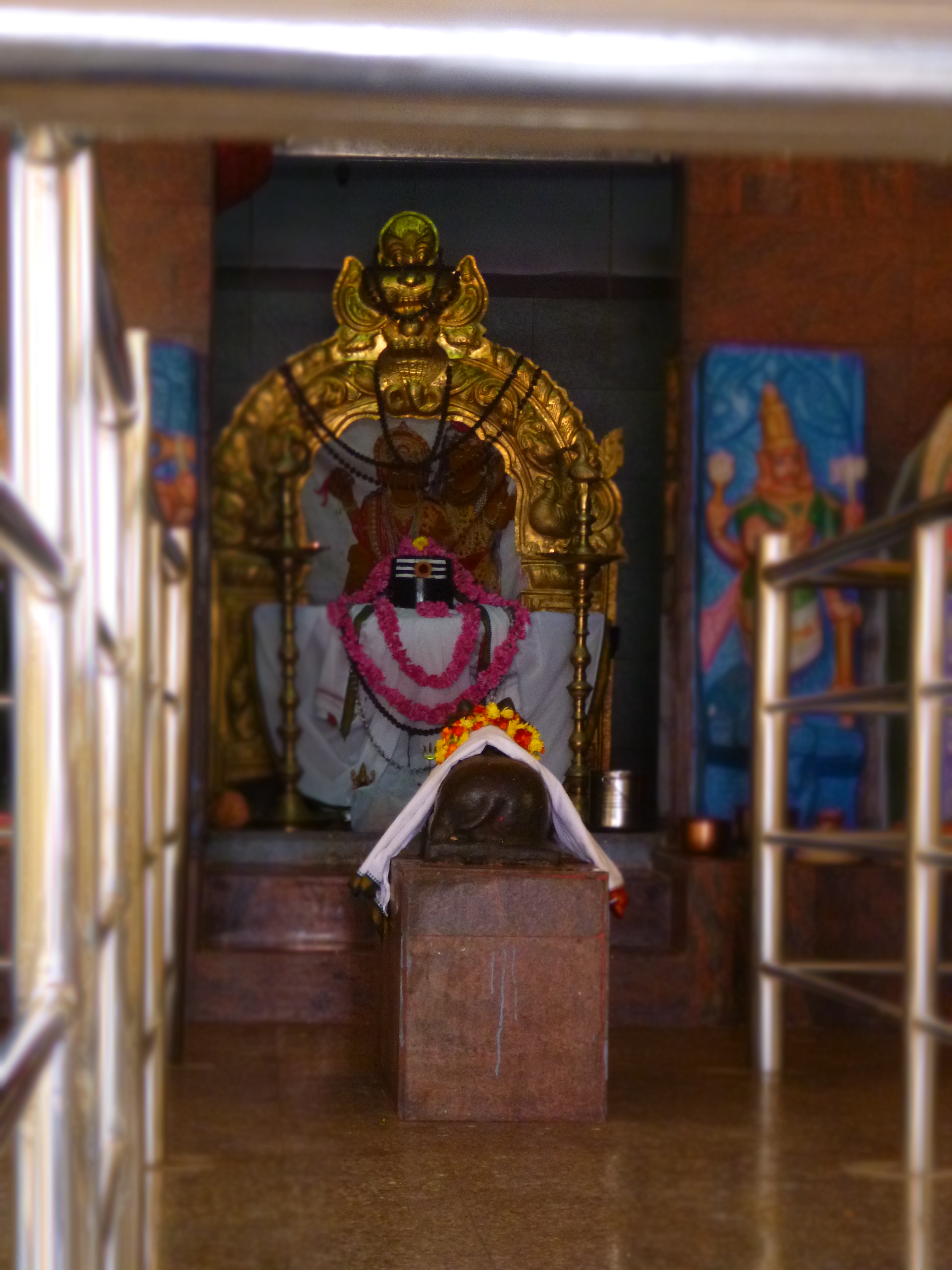 Idol of Sri Ananda Lingeshwara, inside Ananda Lingeshwara temple, Hebbal, Bangalore